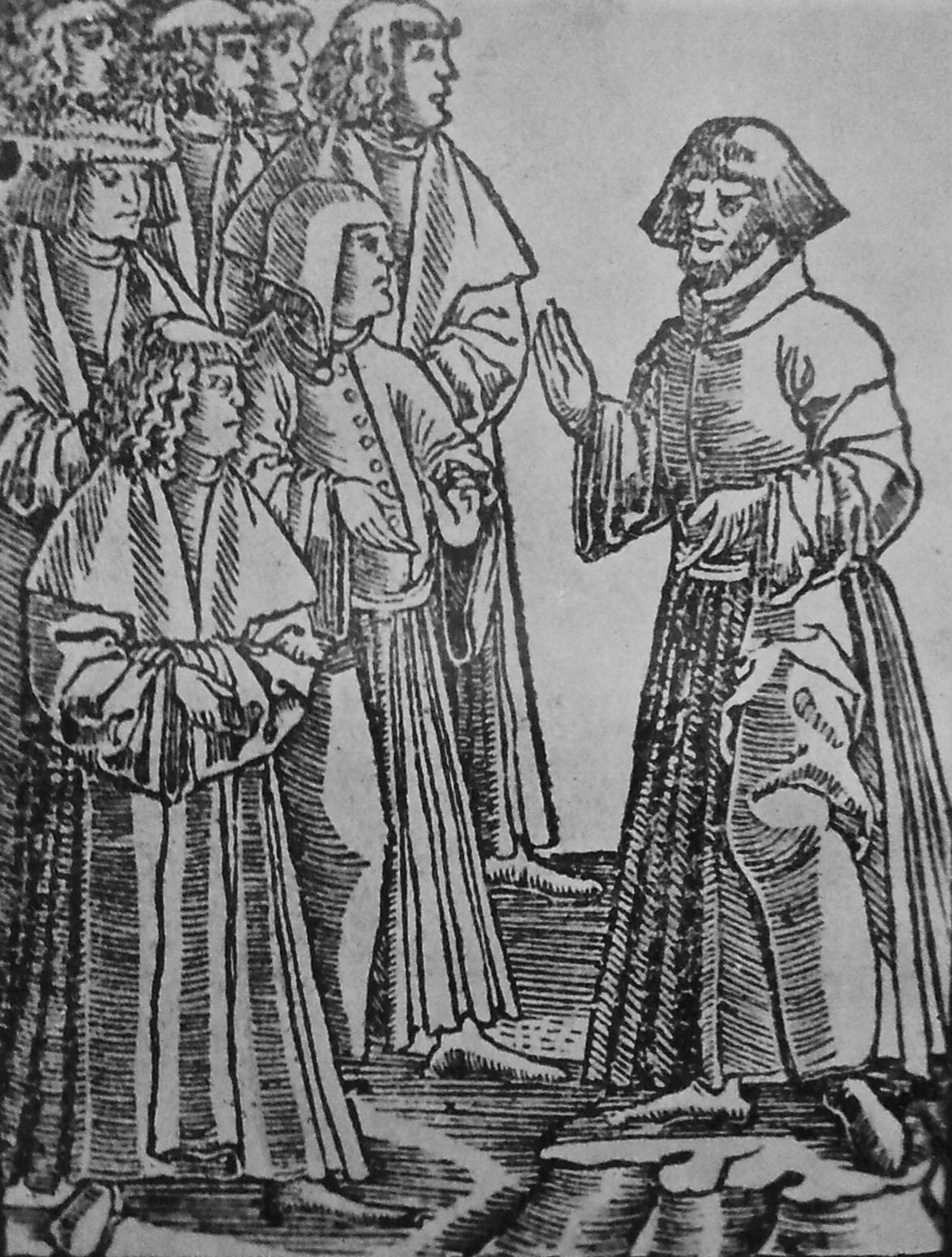 Petr Chelčický talking with masters of the University of Prague.